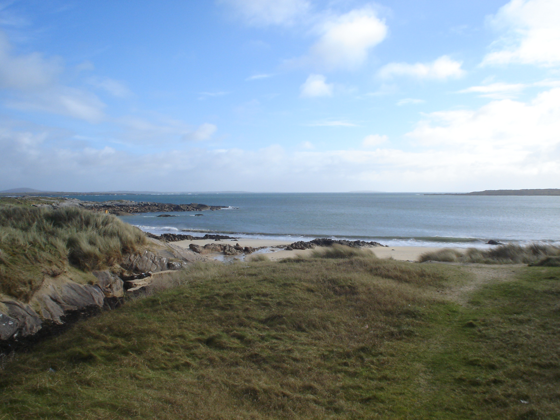 Photo of Gurteen Beach taken by Perrettben (talk) 13:20, 11 December 2007 (UTC) on the 26th of February 2007 with a Sony DSC-P41 CyberShot digital camera. This should be linked to the Gurteen Beach article.